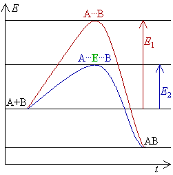 Diagram of a catalytic reaction, showing the energy needed at each stage of the reaction. The substrates (A and B) normally need a large amount of energy to reach the transition state, which then reacts to form the end product (AB). The enzyme creates a microenvironment in which A and B can reach the transition state more easily, reducing the amount of energy needed. Since the lower energy state is easier to reach and therefore occurs more frequently, as a result the reaction is more likely to take place, thus improving the reaction speed.